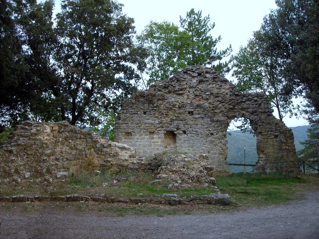 Remnants of Rocca di Preggio, Umbertide, Perugia, Umbria, Italy